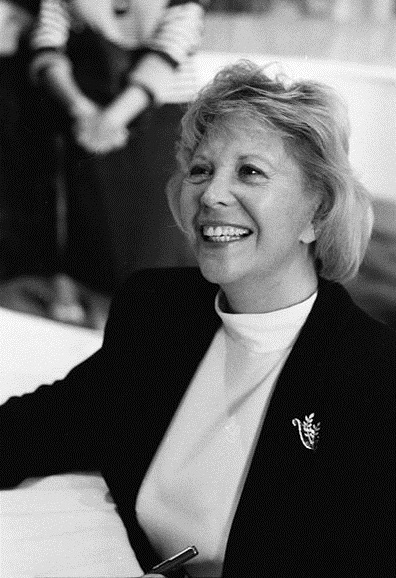 Dinah Shore, Miami Book Fair International, 1990